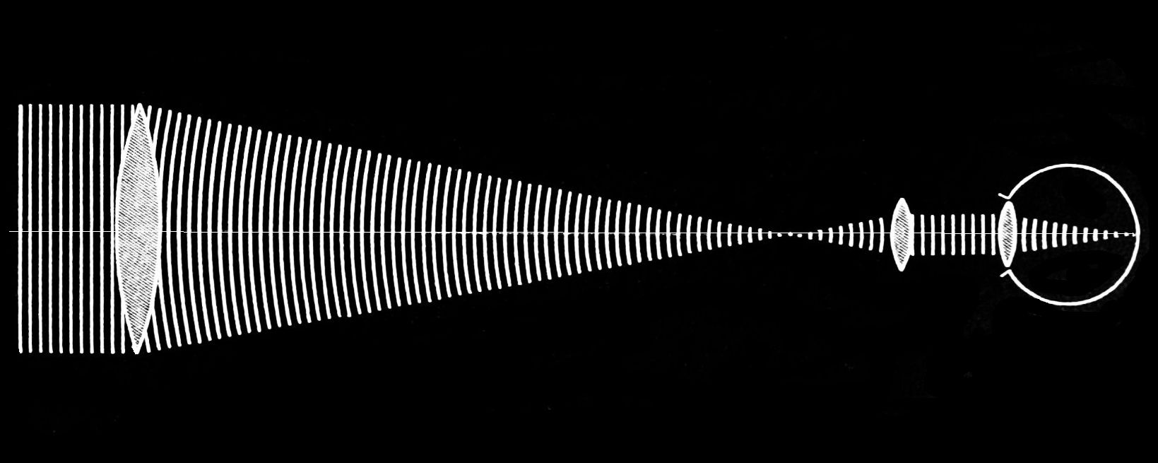 Light wave divergence traveling through different focal points